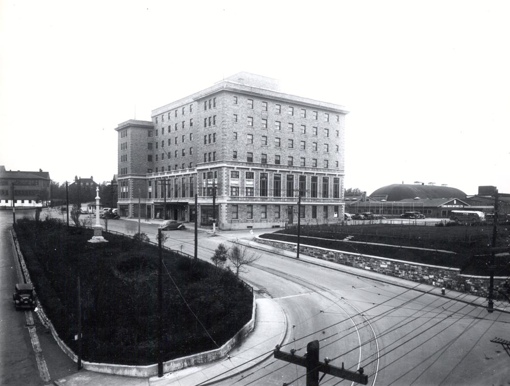 Newfoundland Hotel (1926) in St. John's